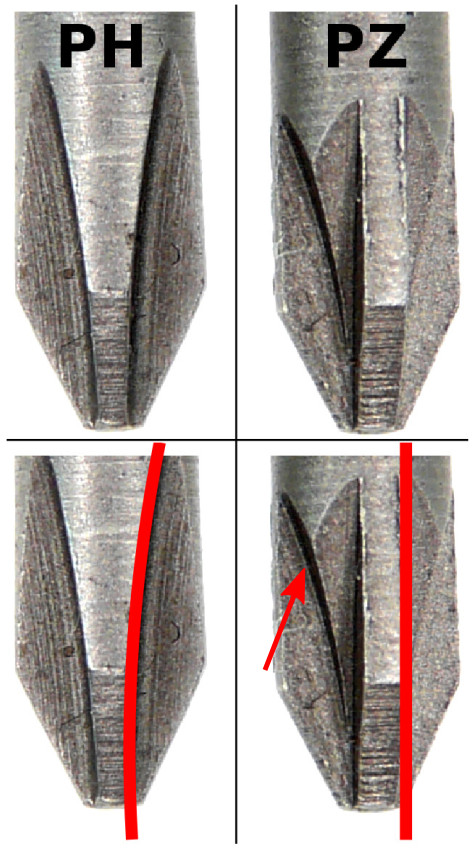 Difference between Phillips and Pozidriv screwdriver.